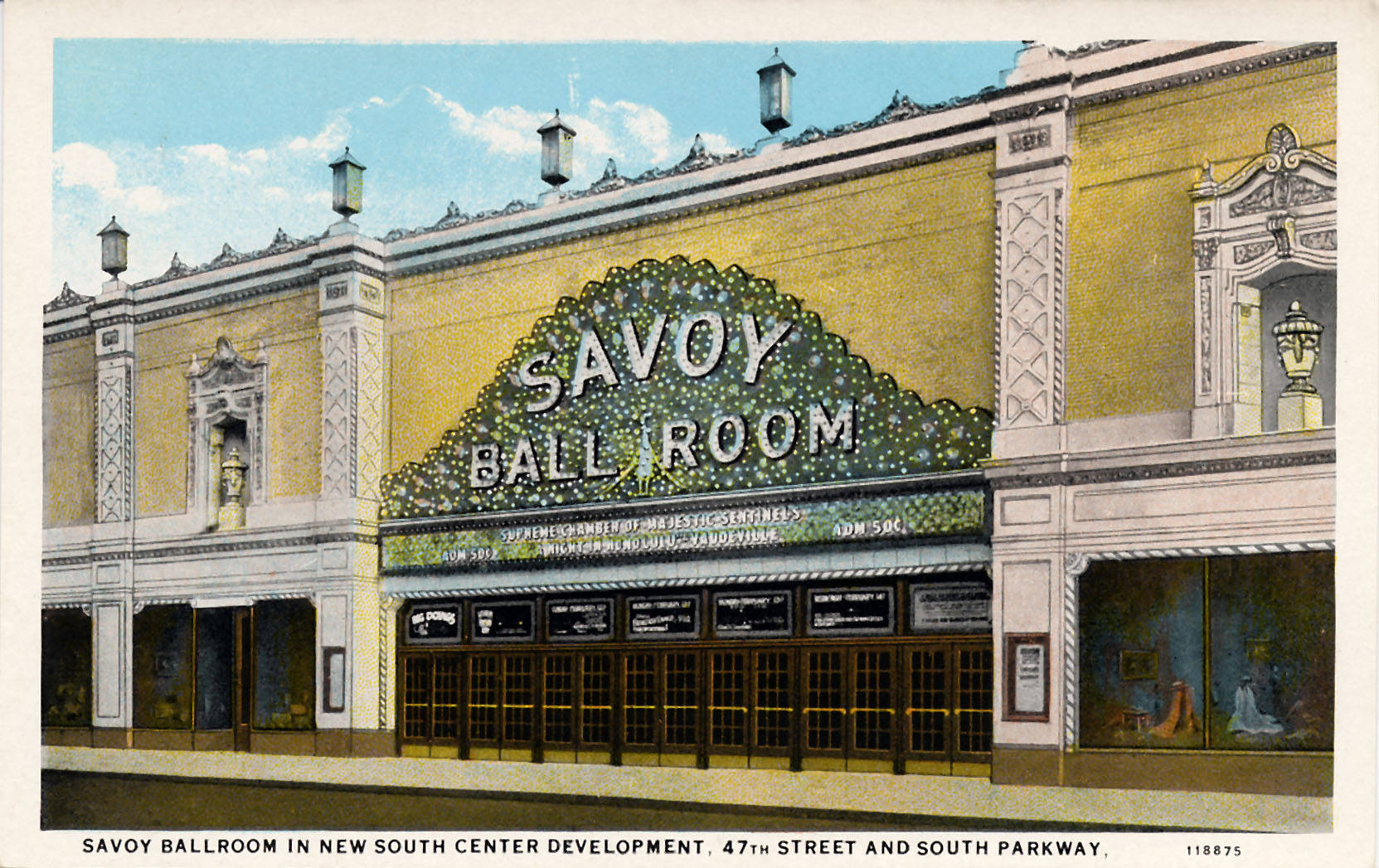 Savoy Ballroom in new South Center Development, 47th Street and South Parkway, for the Negro community